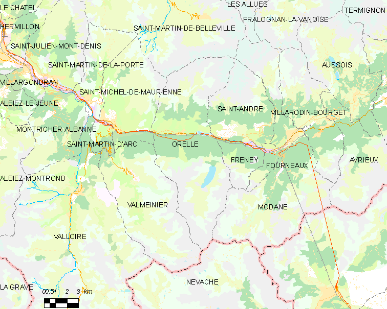 Map of French municipality